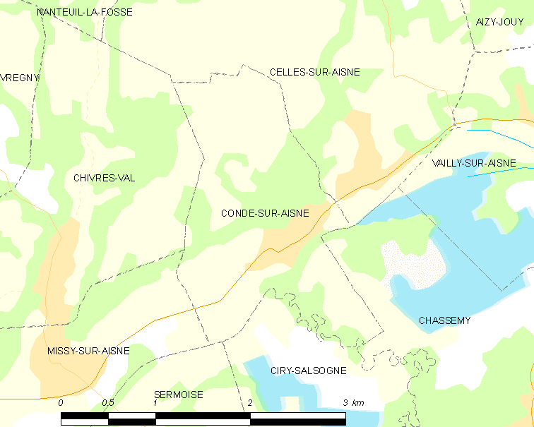 Map of French commune: Condé-sur-Aisne Map commune FR insee code 02210.png